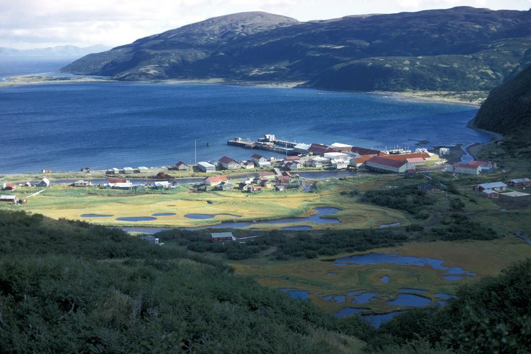 Image title: Chignik village in summer Image from Public domain images website